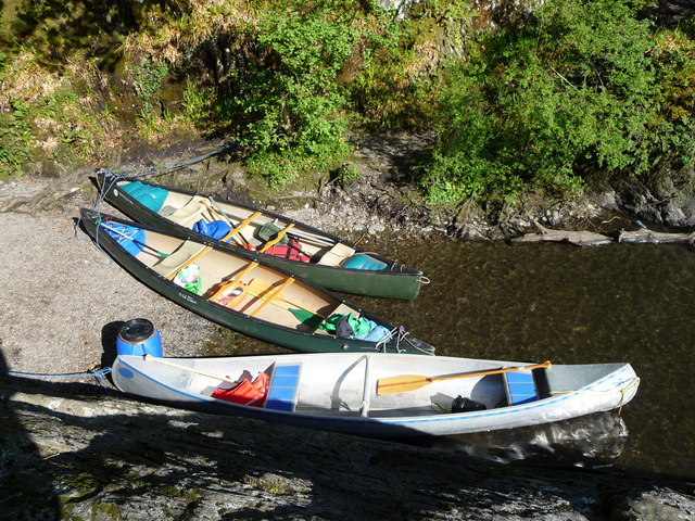 The secret harbour, Peel Island In the book Swallows and Amazons by Arthur Ransome, this is the head of the Secret Harbour on Wild Cat island. It is the most obvious place to land from a canoe.